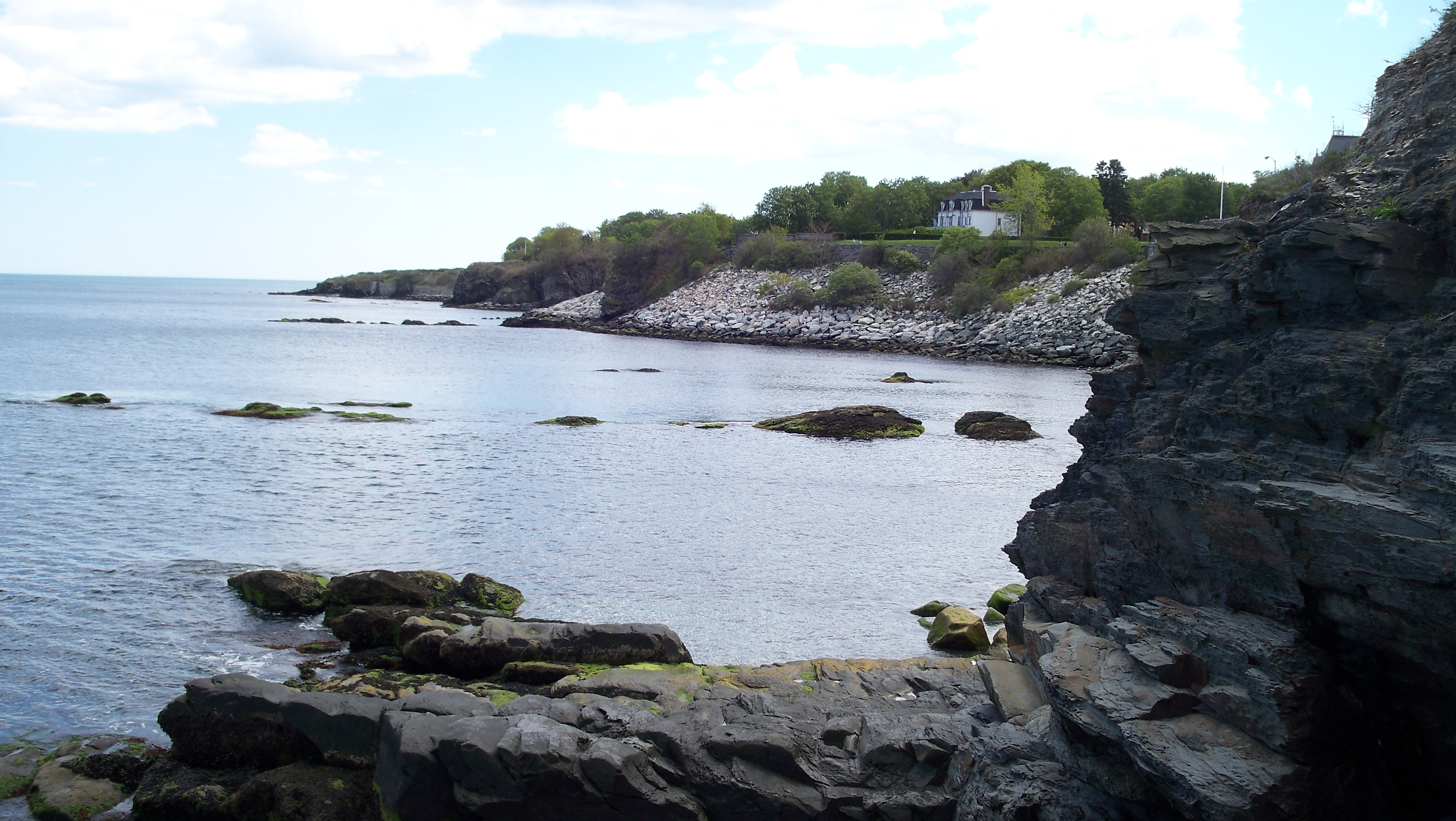 Newport RI shoreline along Easton Bay at east end of Narragansett Ave